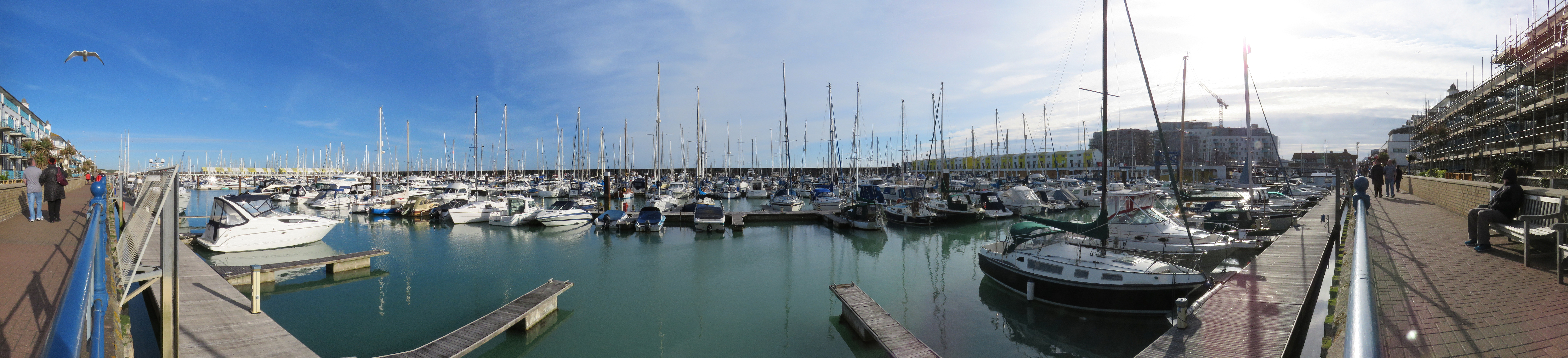 Panoramic image of Brighton Marina inner harbour